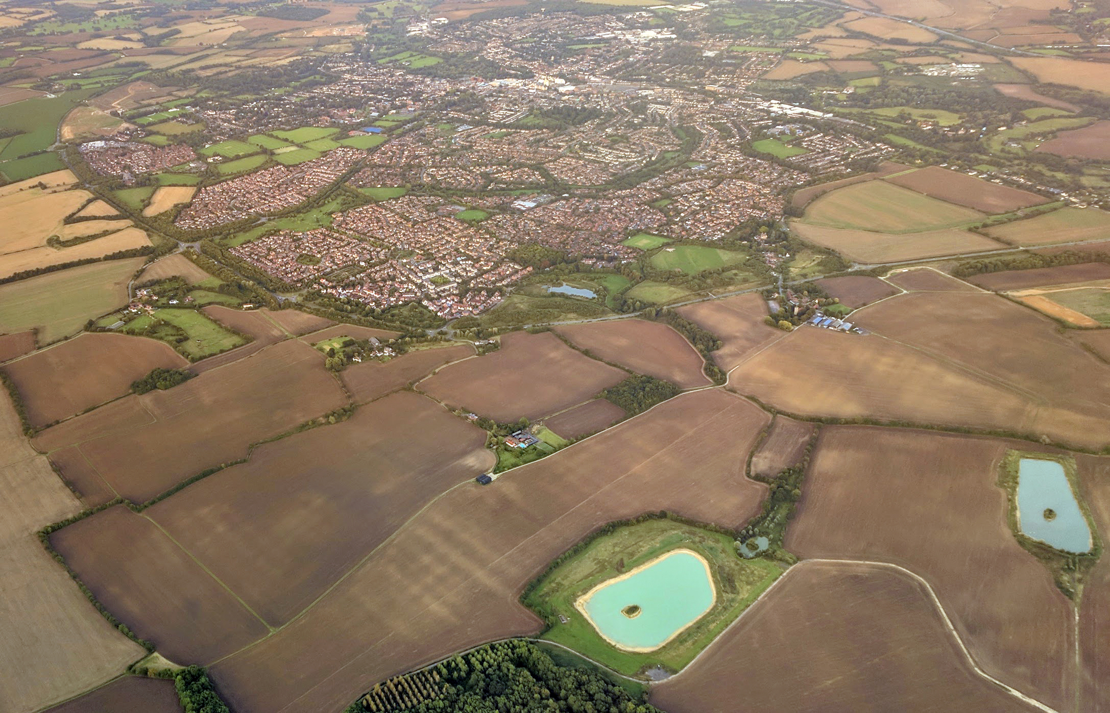 Aerial view of Bishop's Stortford, near Stansted Airport, England.